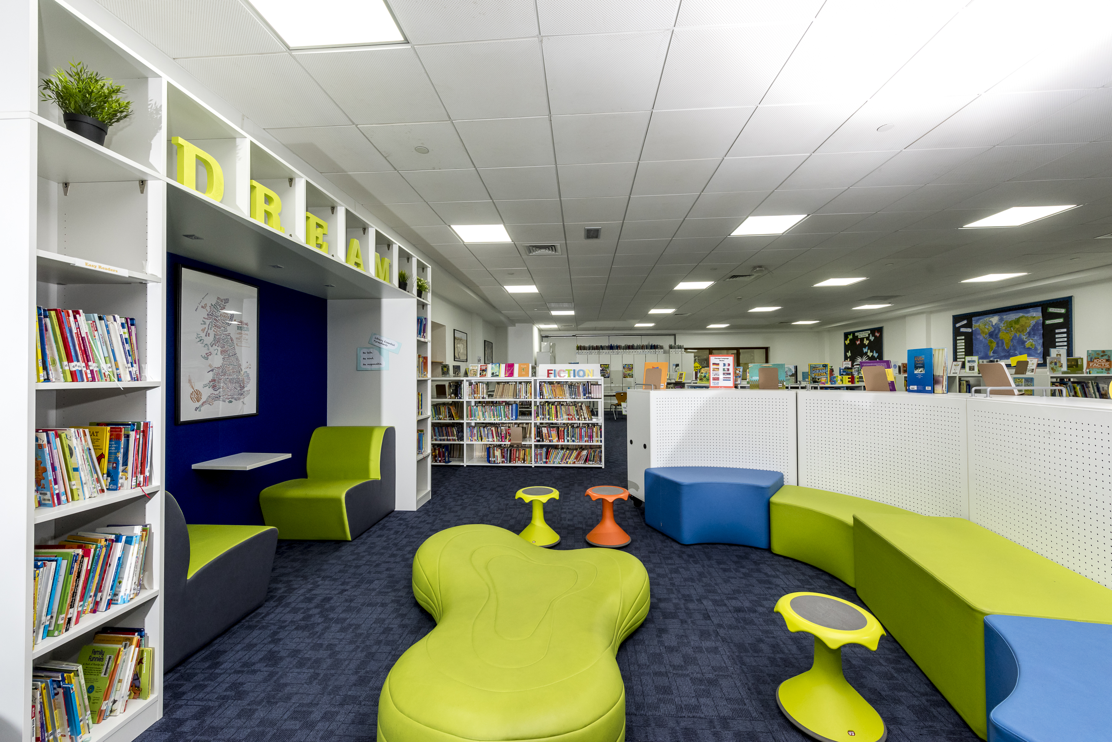 The Primary Library